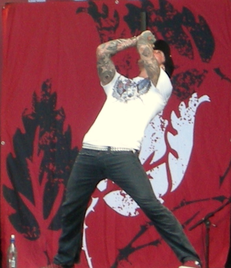 Jimmie Strimmell, singer of Dead by April, at Sonisphere Festival, Hultsfred, Sweden 2009